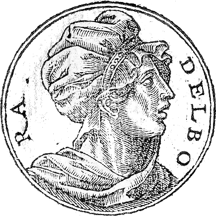 Deborah was a prophetess and the fourth, and the only female, Judge of pre-monarchic Israel in the Old Testament (Tanakh).